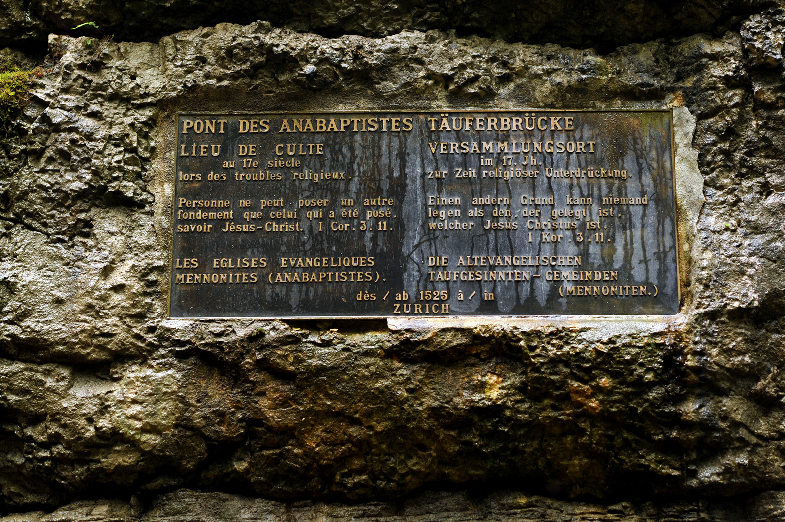 Anabaptist bridge crossing the Combe du Bez above Corgémont; Berne, Switzerland. Memorial plaque.